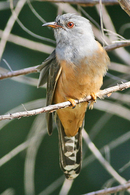 Plaintive Cuckoo (Cacomantis merulinus) at Nai Yang, Phuket